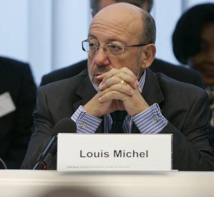 Louis Michel, European Commissioner for Development, at the Central African Republic Development Partner Round Table in Brussels